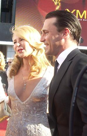 John Hamm with his companion Jennifer Westfeldt attending the 60th Annual Emmy Awards, Nokia Theater